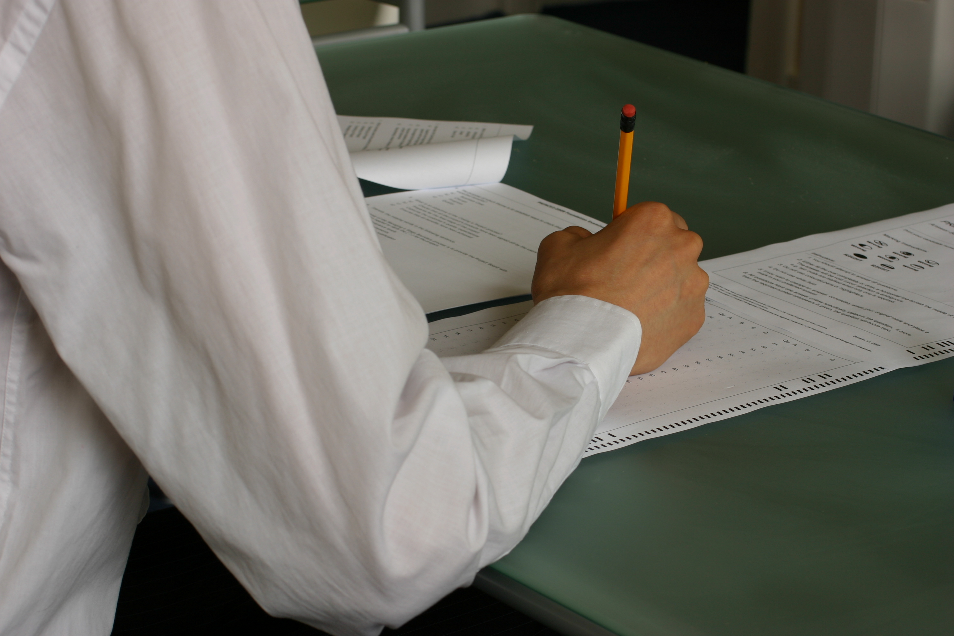 Student in a classroom writing exam papers.